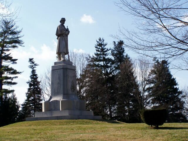 The American Volunteer ("Old Simon"), U.S. Soldier Monument, Antietam National Cemetery. Carl Conrads, sculptor; James W. Pollette, carver; George Keller, architect. Dedicated September 17, 1880. Height: 44 feet, 7 inches. Weight: 250 tons.